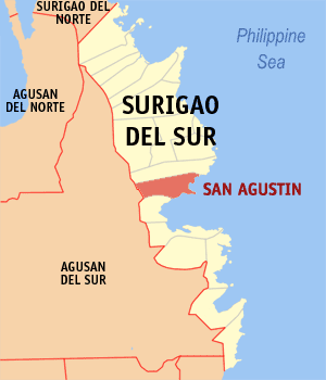 Map of the Surigao del Sur showing the location of San Agustin